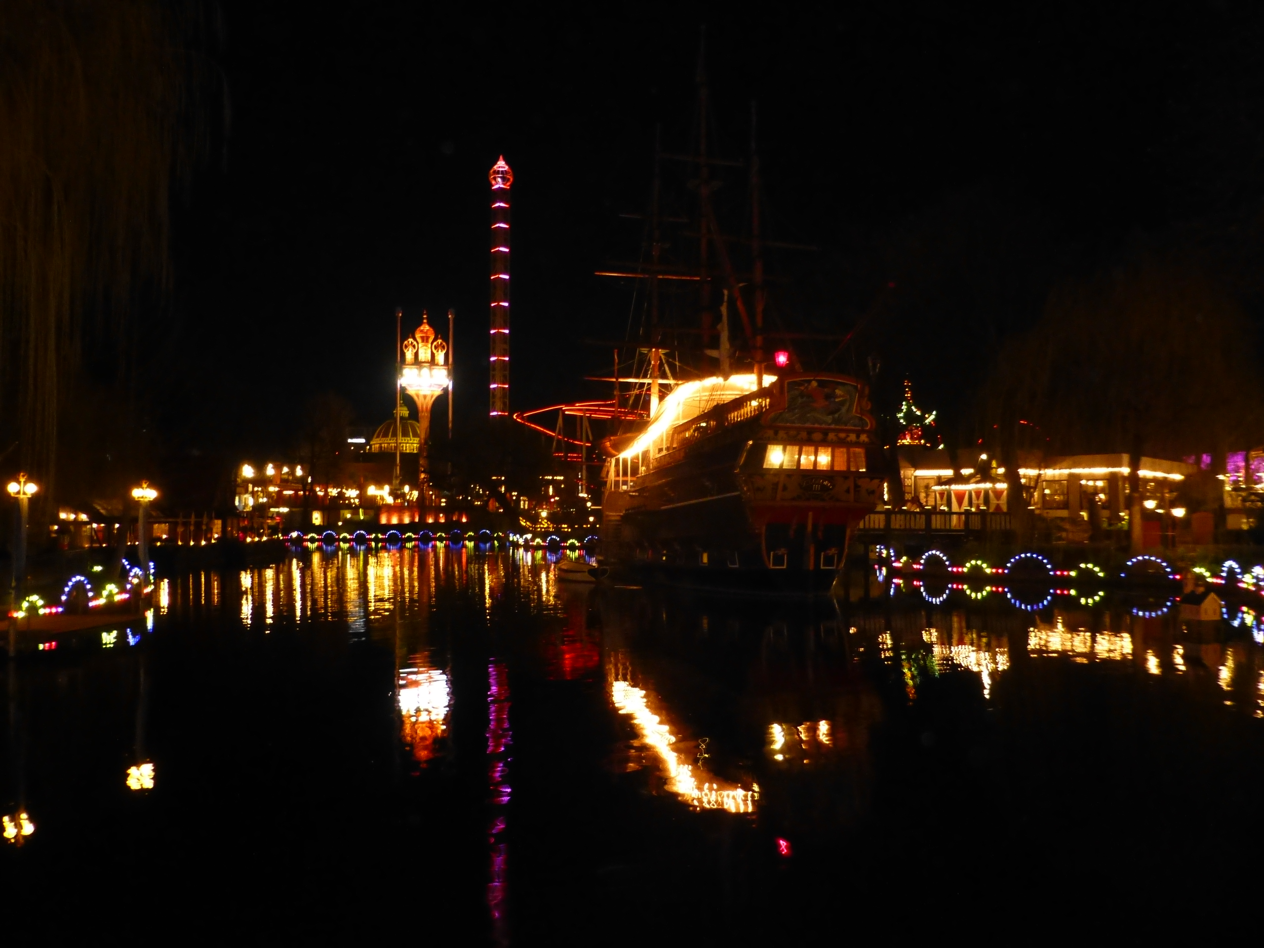 The restaurant ship Fregatten Sct. Georg III in the amusement park Tivoli in Copenhagen.